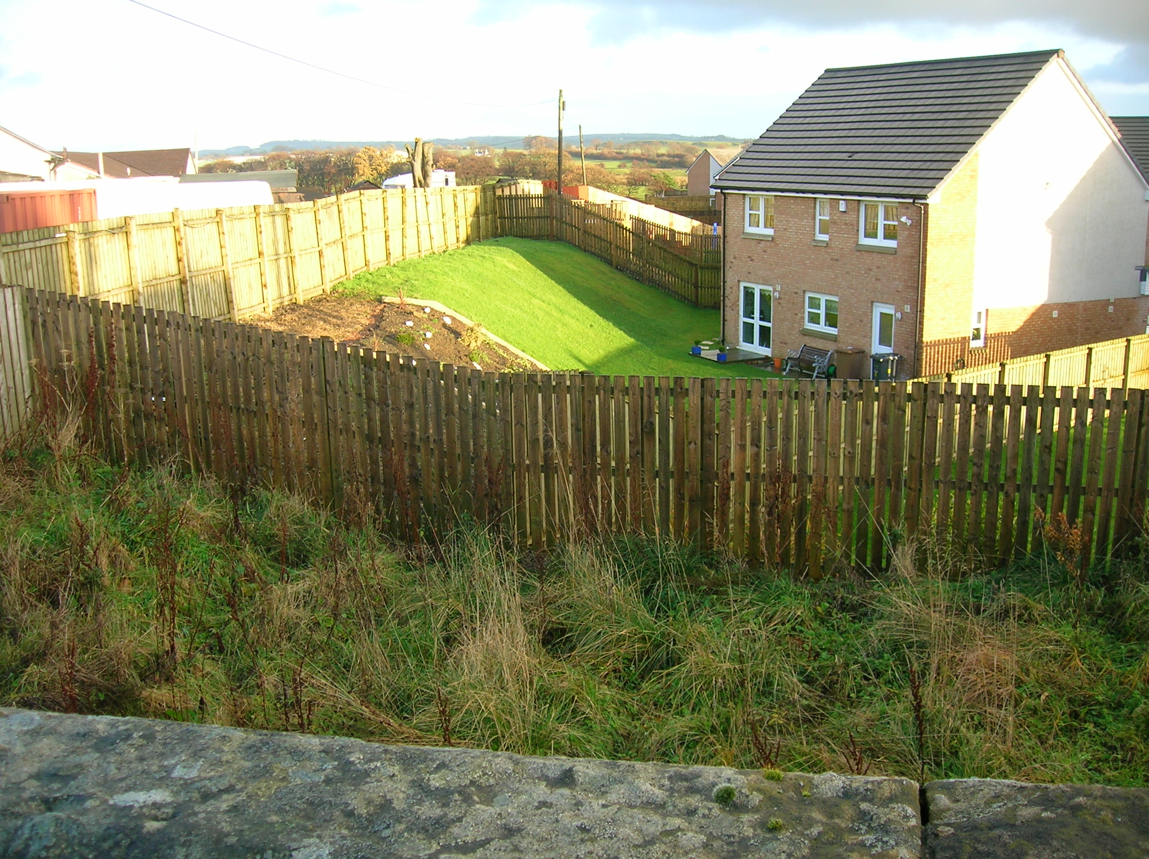 The site of Barrmill railway station from the old road overbridge. North Ayrshire, Scotland.